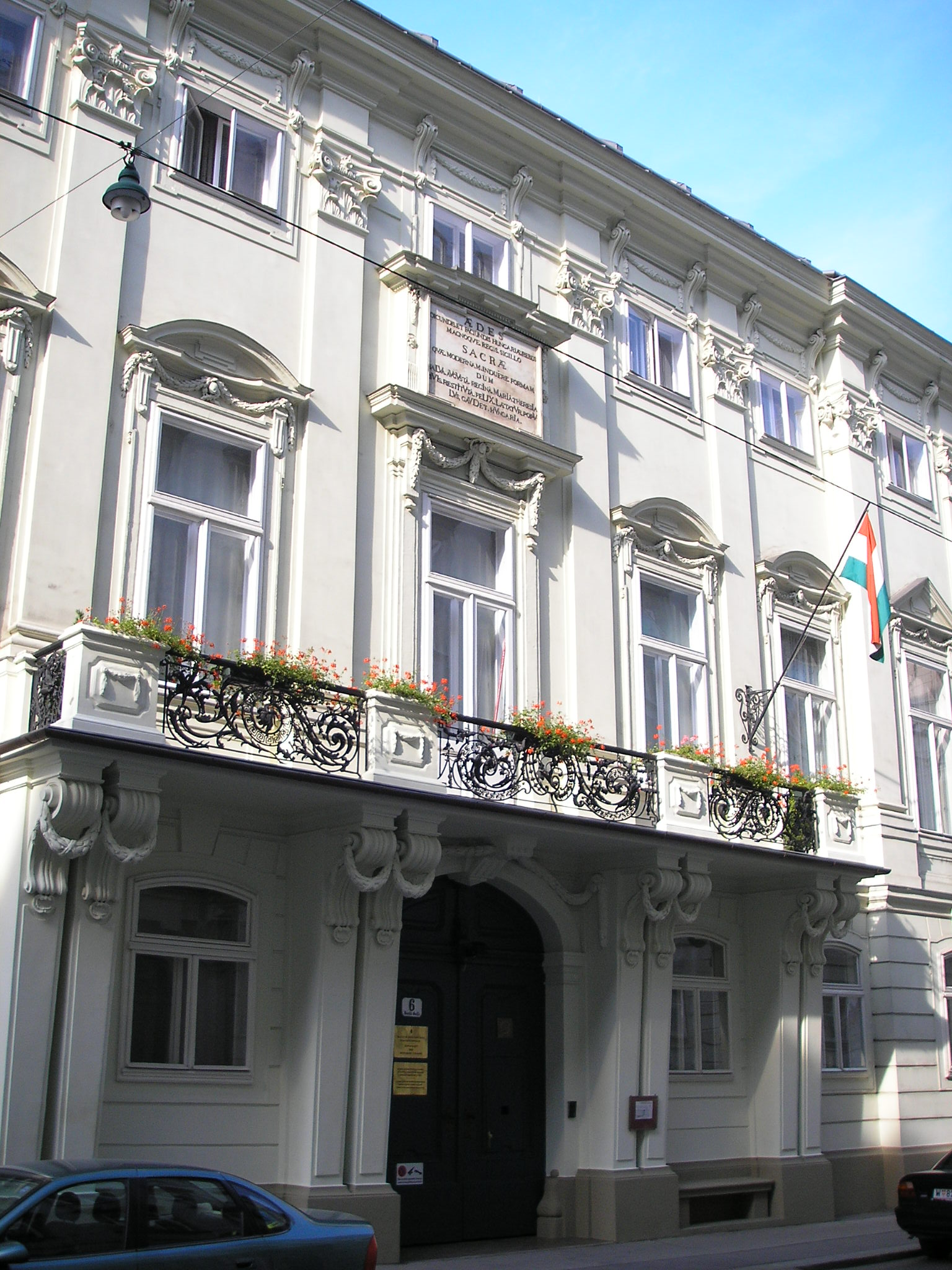 Image of the Palais Strattmann, today the Hungarian embassy in Austria. The embassy building consists of two Palais which were combined together.